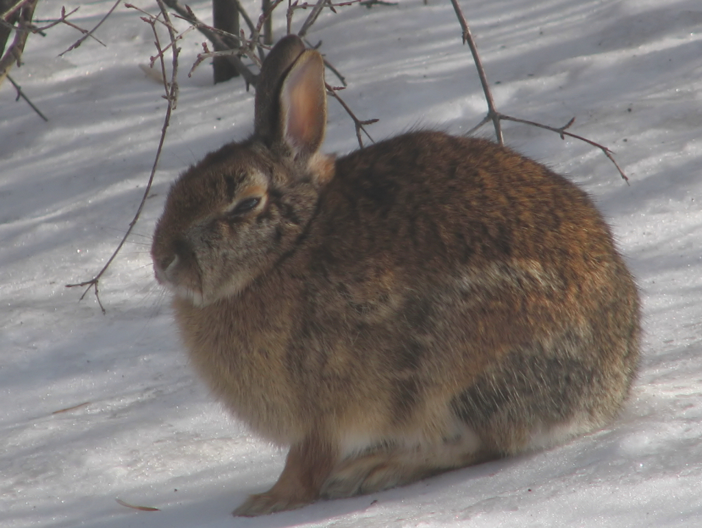 Eastern Cottontail (Sylvilagus floridanus) taken near the Rideau River, Ottawa, Ontario